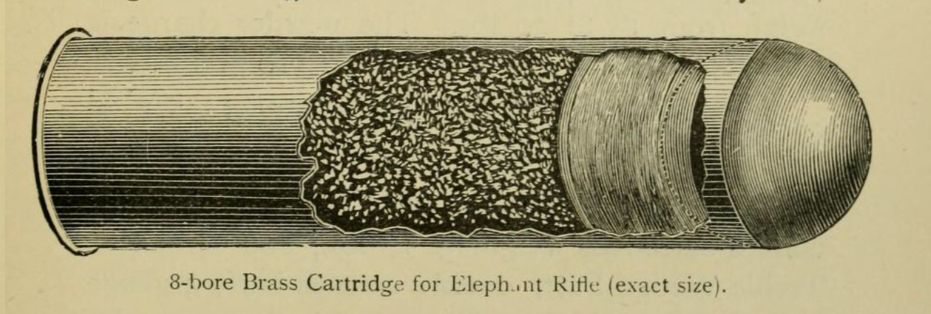 Illustration of an 8 bore rifle cartridge